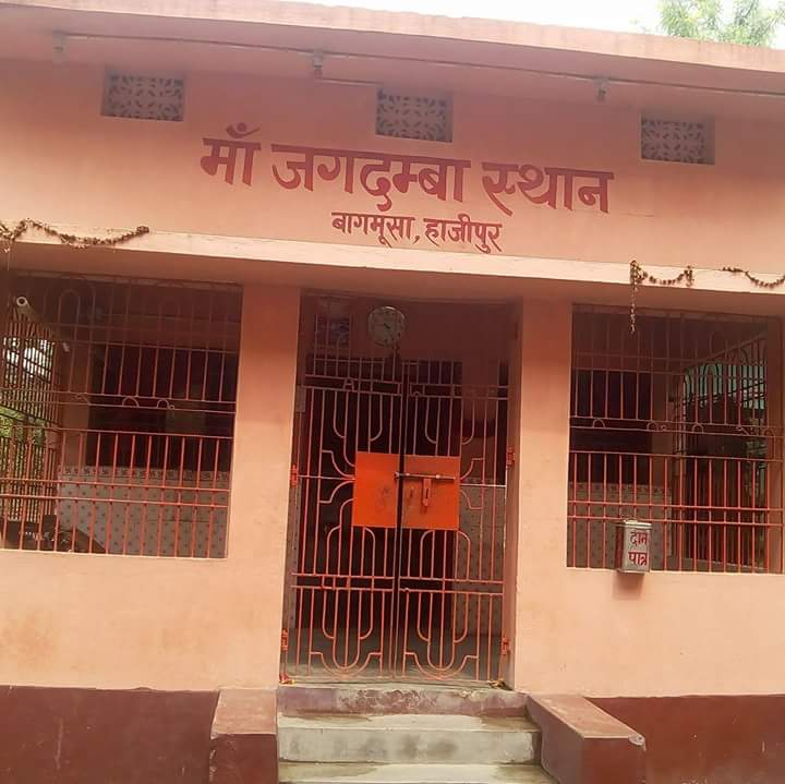 Temple